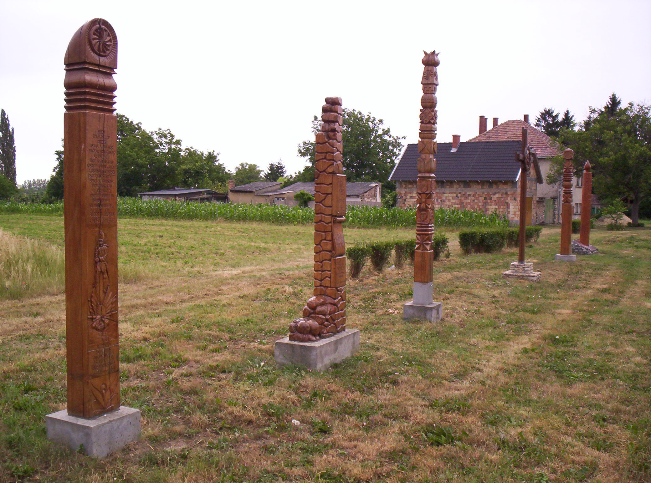 Monuments in the Millenary Memorial Park in Pápa, Hungary Emlékművek a pápai Millenniumi Emlékparkban